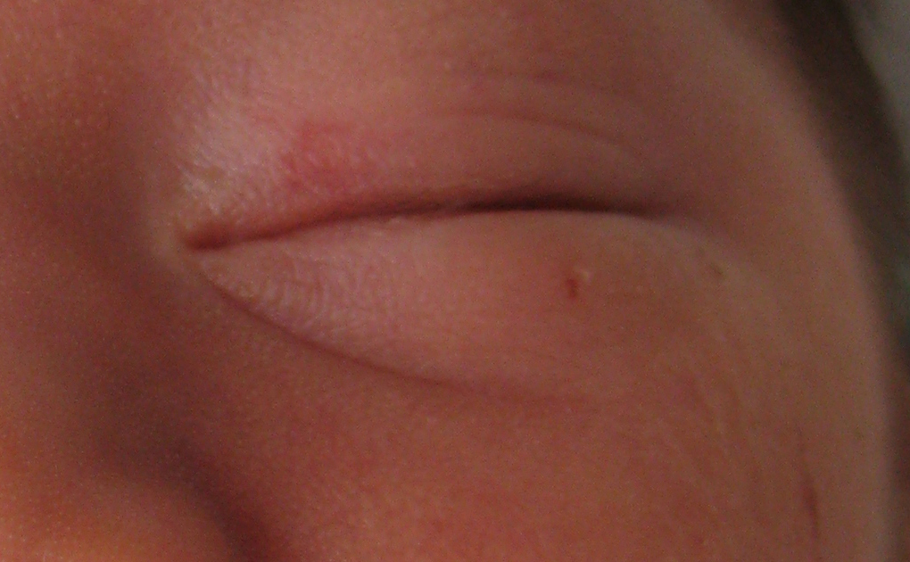 Salmon patch on left upper eyelid